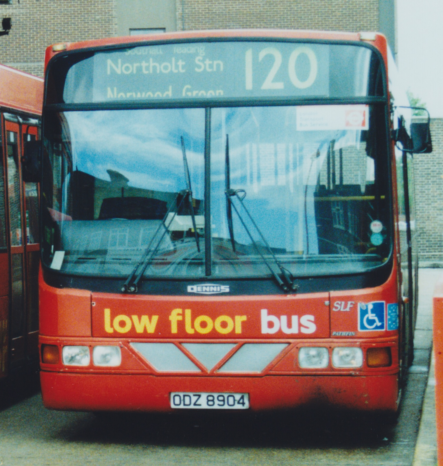 First Centrewest (Uxbridge Buses) bus LLW4 (reg. ODZ 8904), a 1993 Dennis Lance SLF single-decker with Wrightbus Pathfinder bodywork, pictured in Hounslow bus station, Hounslow, London, operating London Buses route 120.